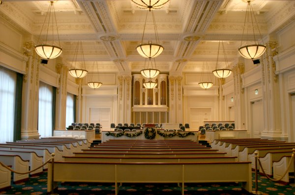 A fairly typical Latter-day Saint chapel. Taken December 24, 2006 at the Joseph Smith Building in Salt Lake City, Utah